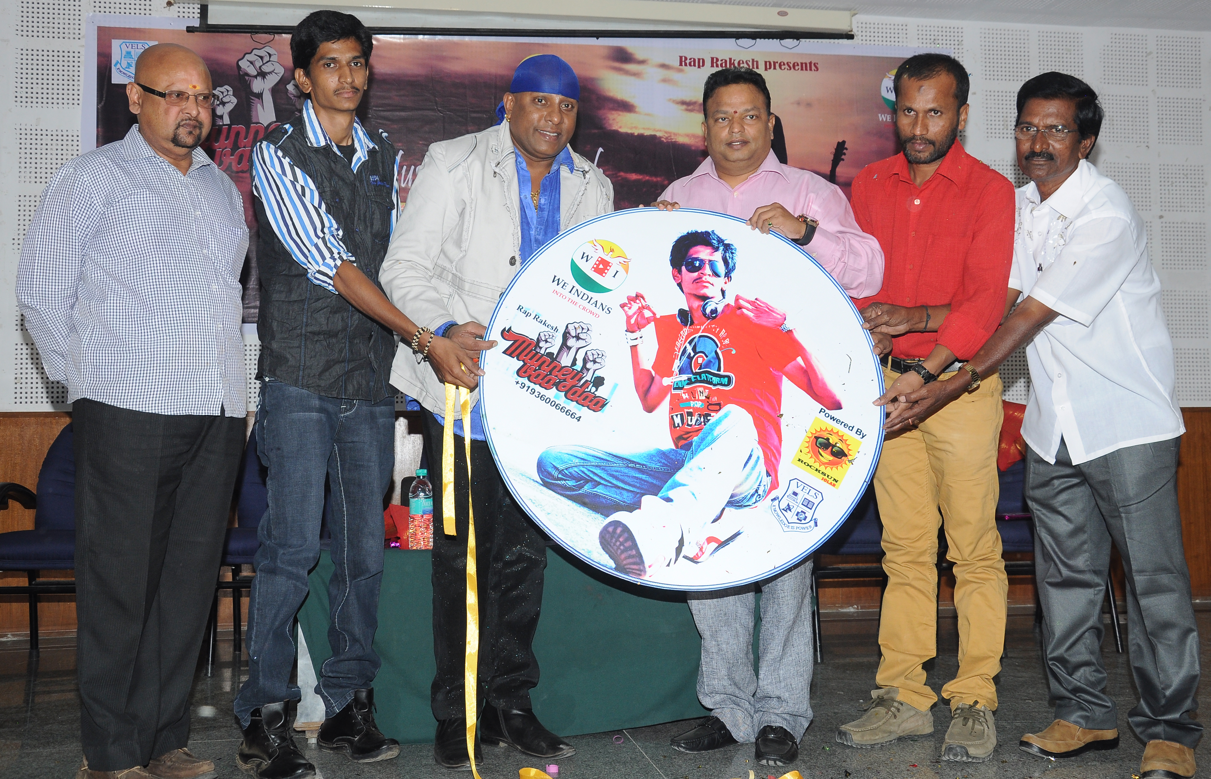 Ishari K. Ganesh in Rap Rakesh Audio Launch at Vels University